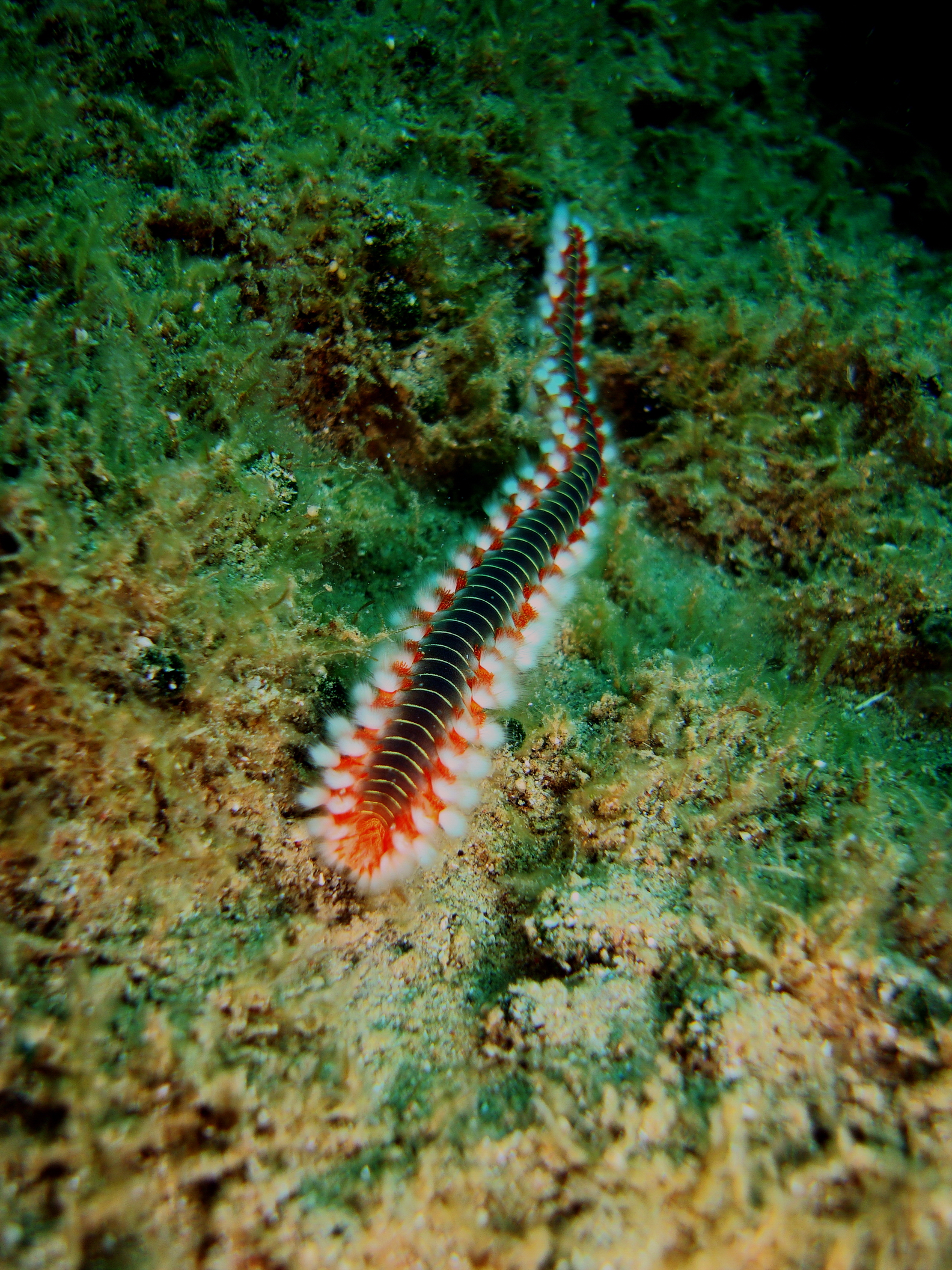 Bearded fireworm from the Mediterranean.